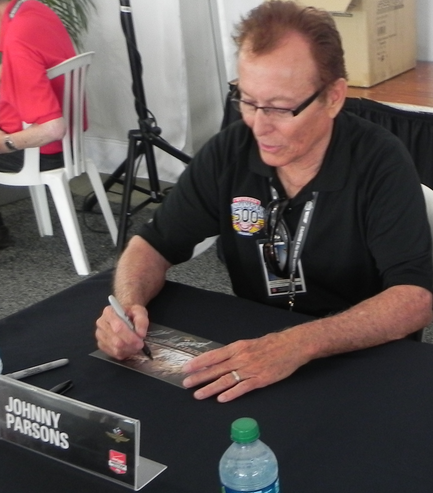 Indy500 driver Johnny Parsons at the 2014 Indianapolis 500.